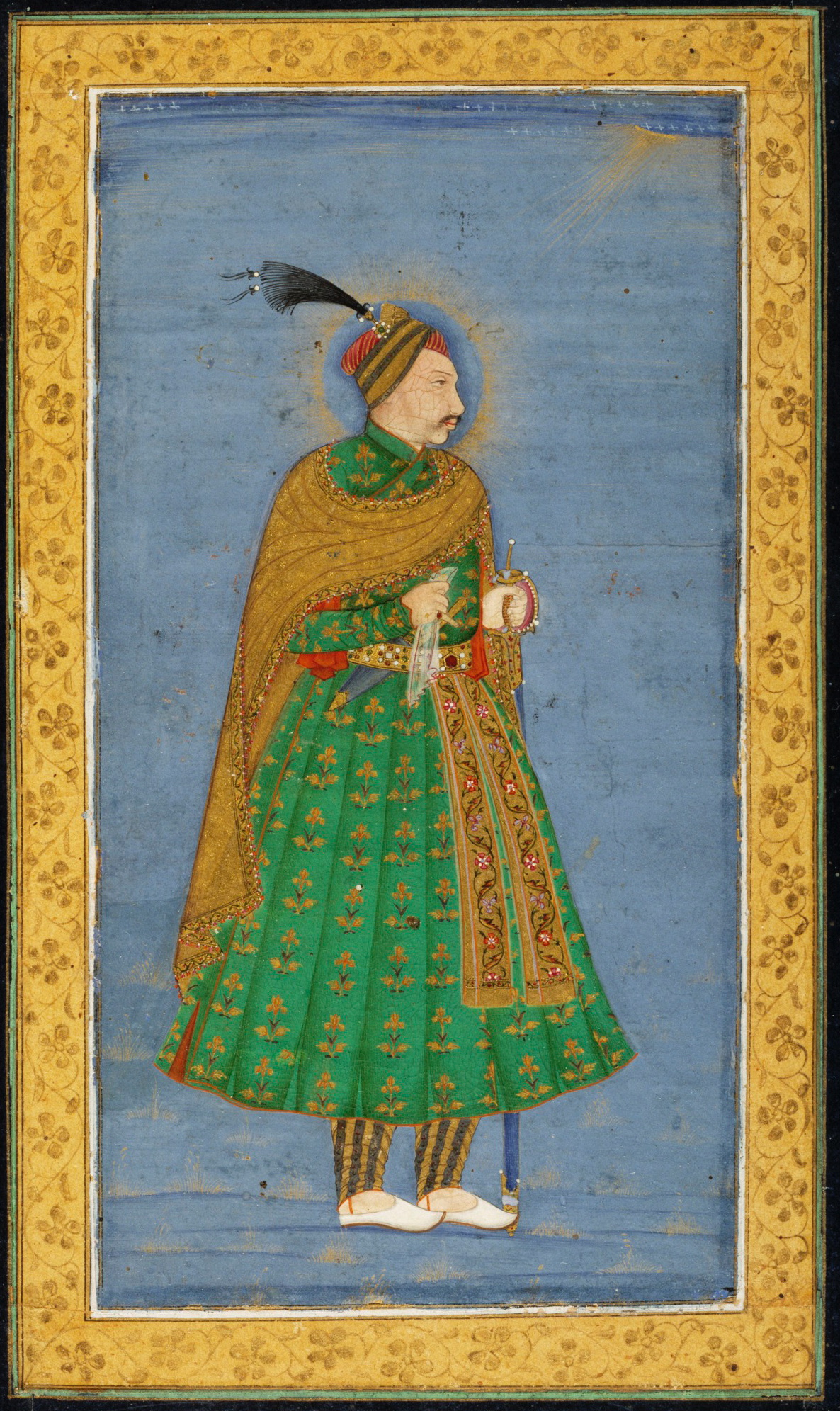 The Sultan Abdullah Qutb Shah stands facing right, in profile, with his right hand on the hilt of a sword. In his left hand he holds a dagger. He is wearing an green gown with an ochre cloak. His head is encircled with a halo. Background blue.